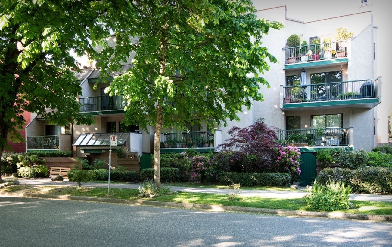 1169 Nelson Street in Vancouver, British Columbia, the site of recording for Skinny Puppy's 1992 album Last Rights